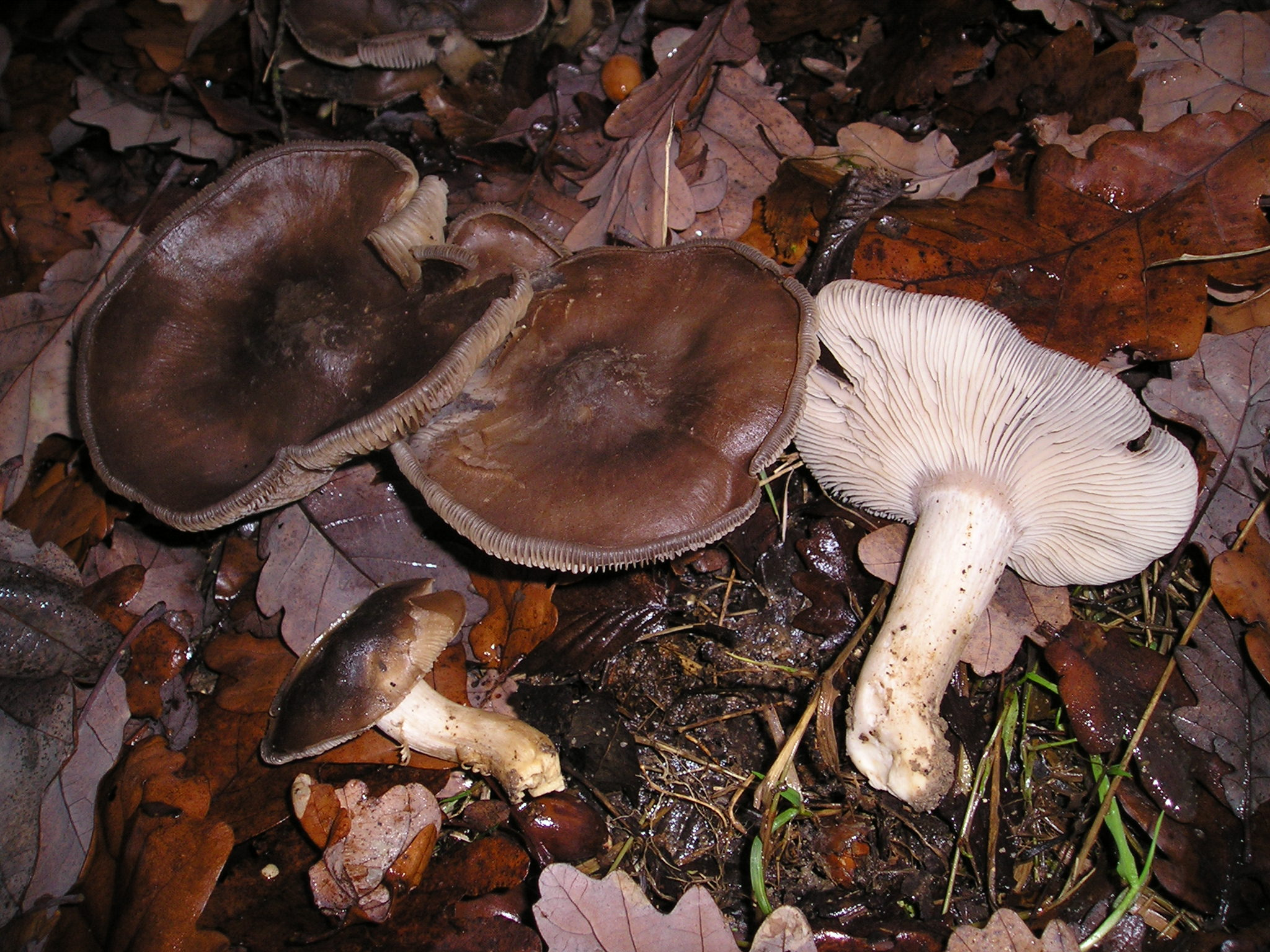 Lyophyllum fumosum in a French wood near Marly.